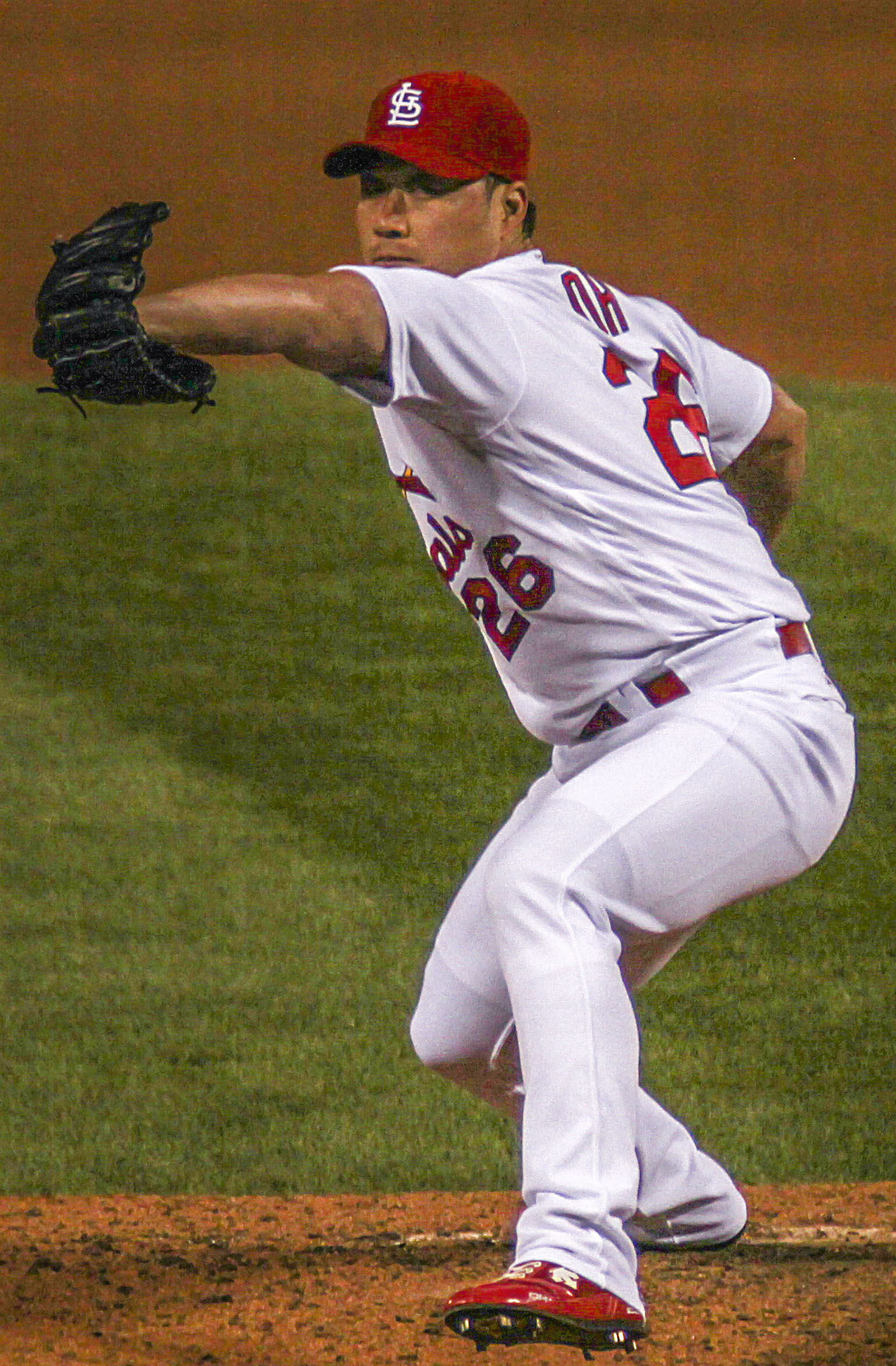 Seung-hwan Oh of the St. Louis Cardinals.